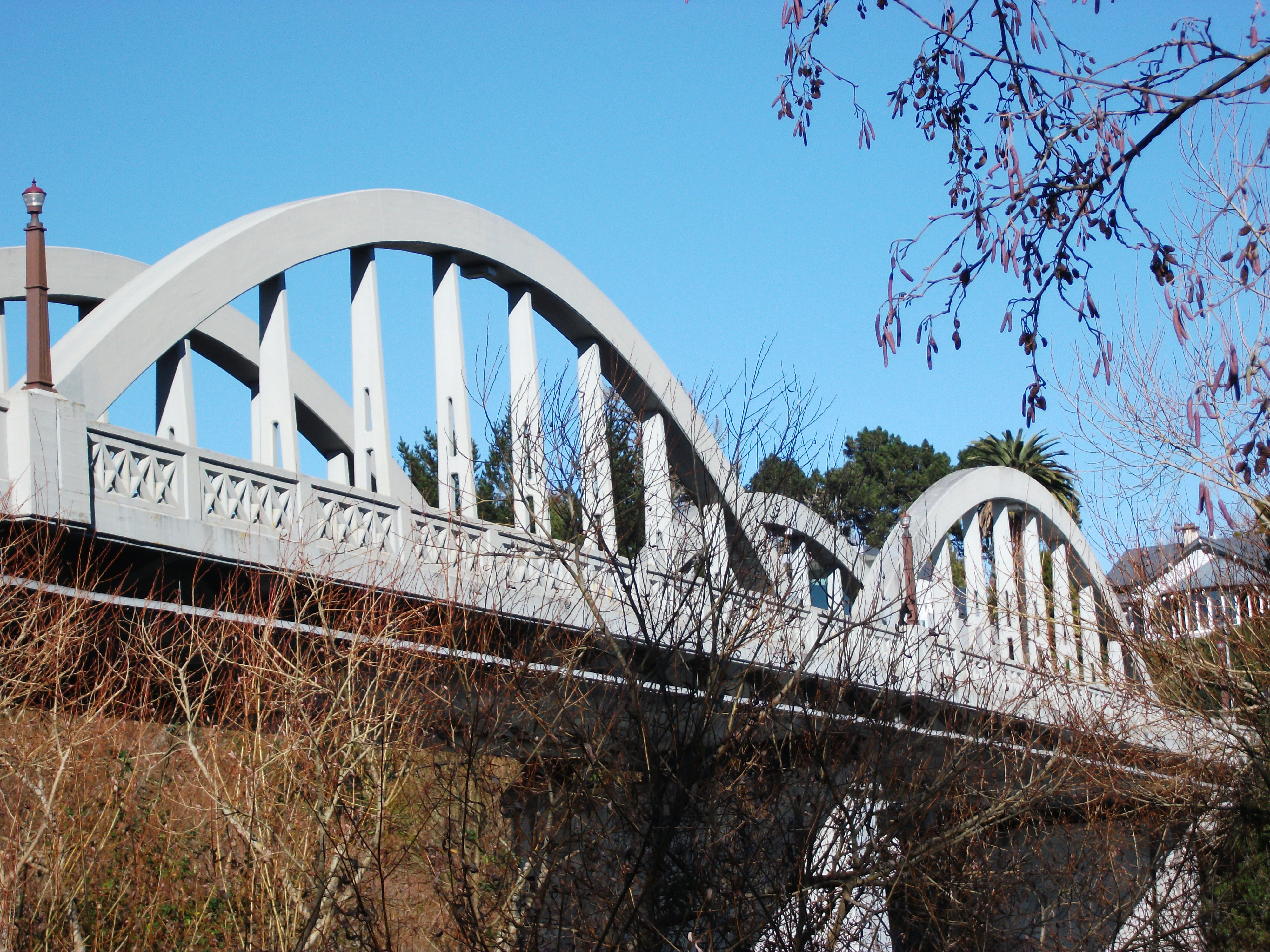 Fairfield Bridge from the north-east